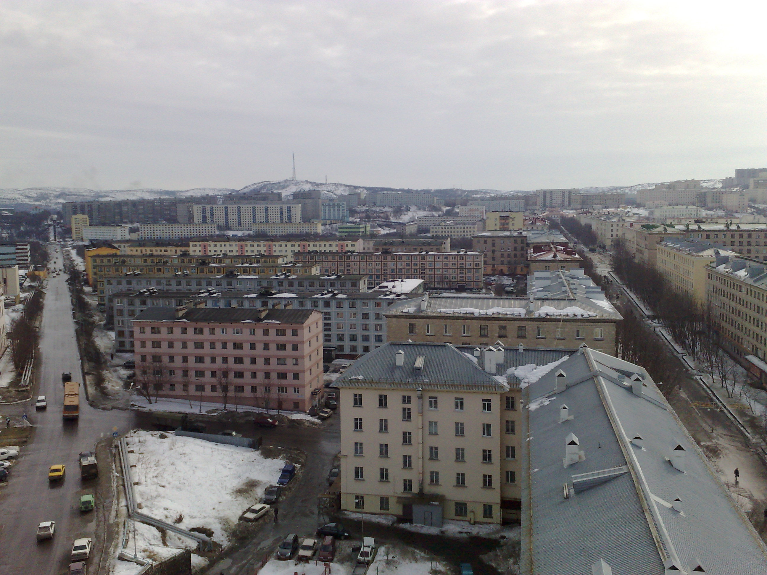 View of streets of Petra Sgibneva (on the left) and Borisa Safonova (on the right) in Severovorsk.